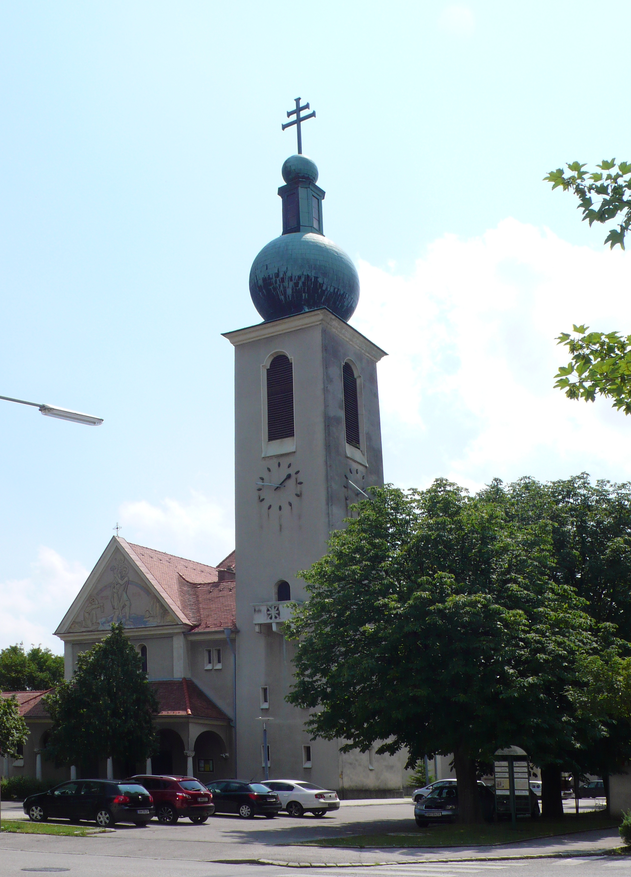 Catholic Parish Church Saint Christopher in Baden, Lower Austria